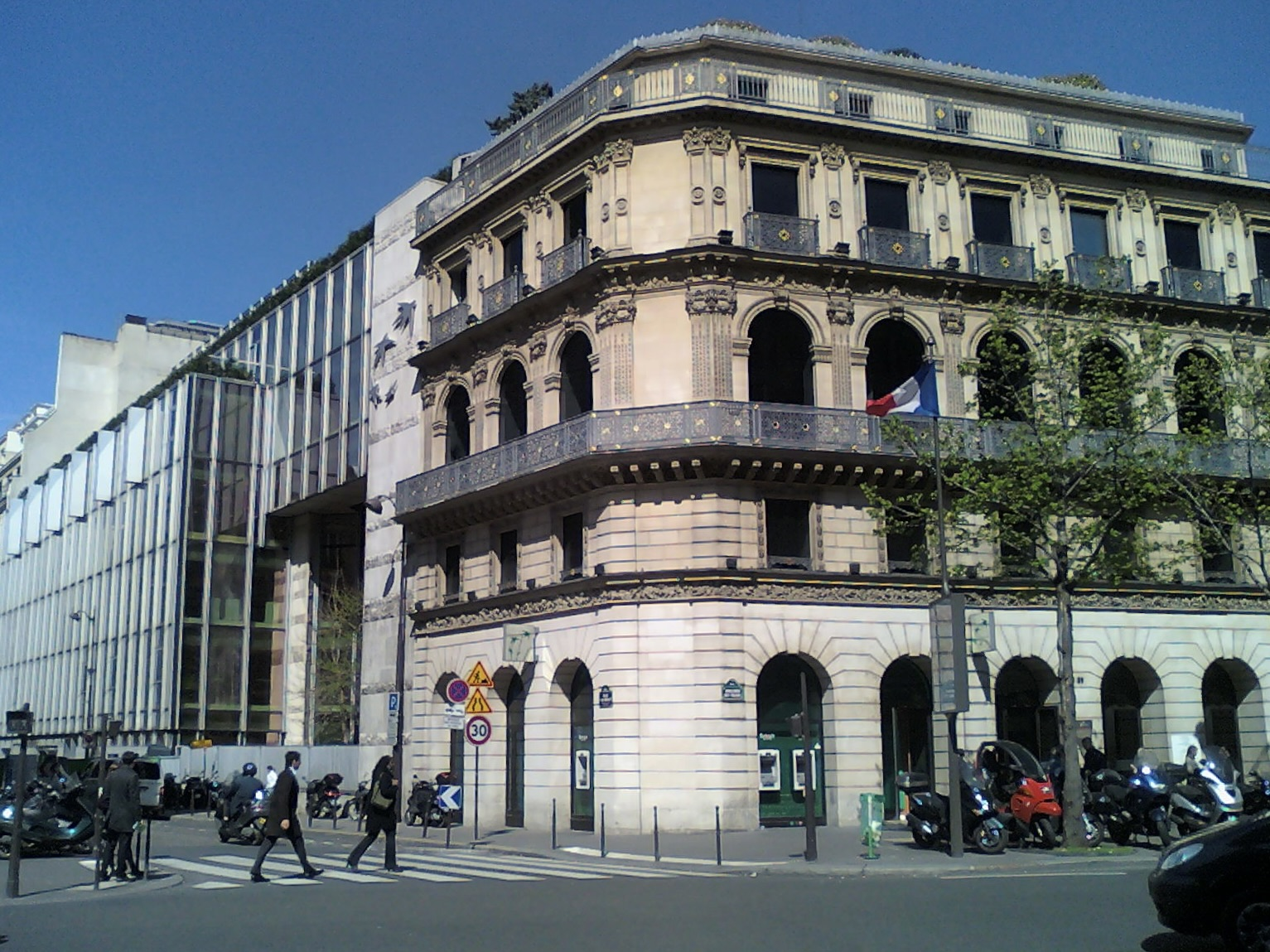 BNP-Paribas headquarters on boulevard des Italiens, Paris